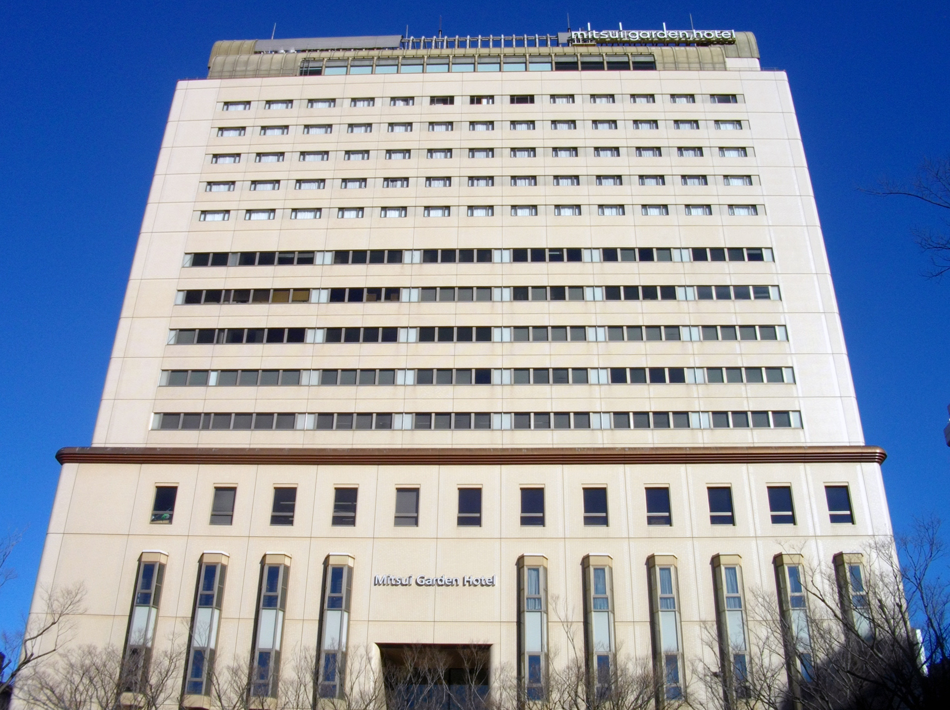 Mitsui Garden Hotel Chiba